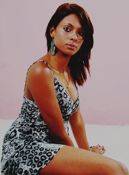 Melody Selvon